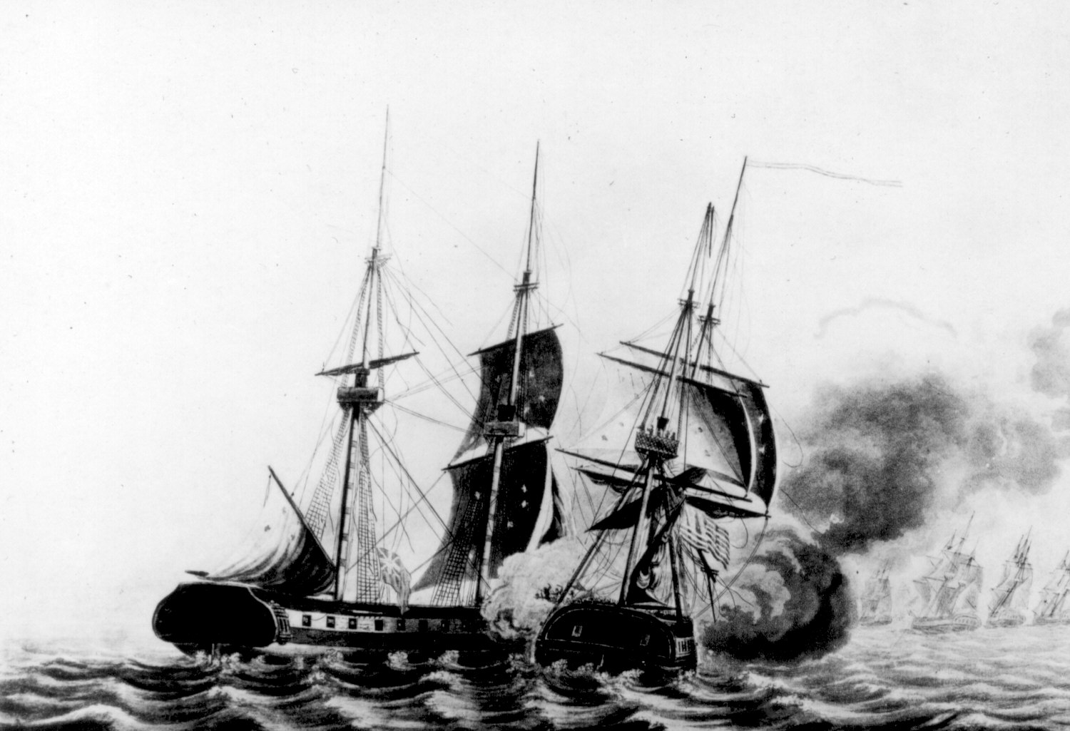 USS Wasp capturing the HMS Frolic